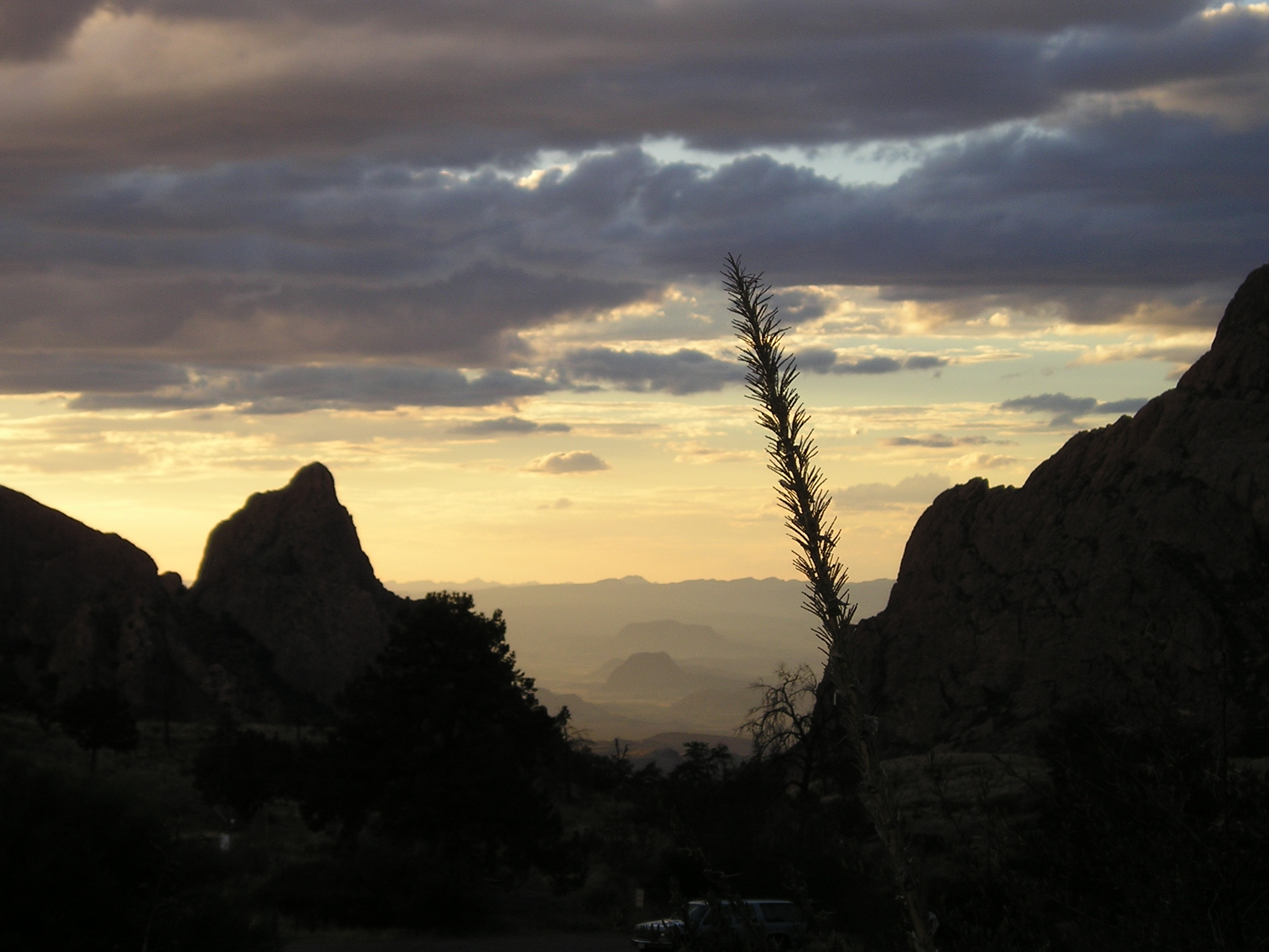 The Window in Big Bend National Park